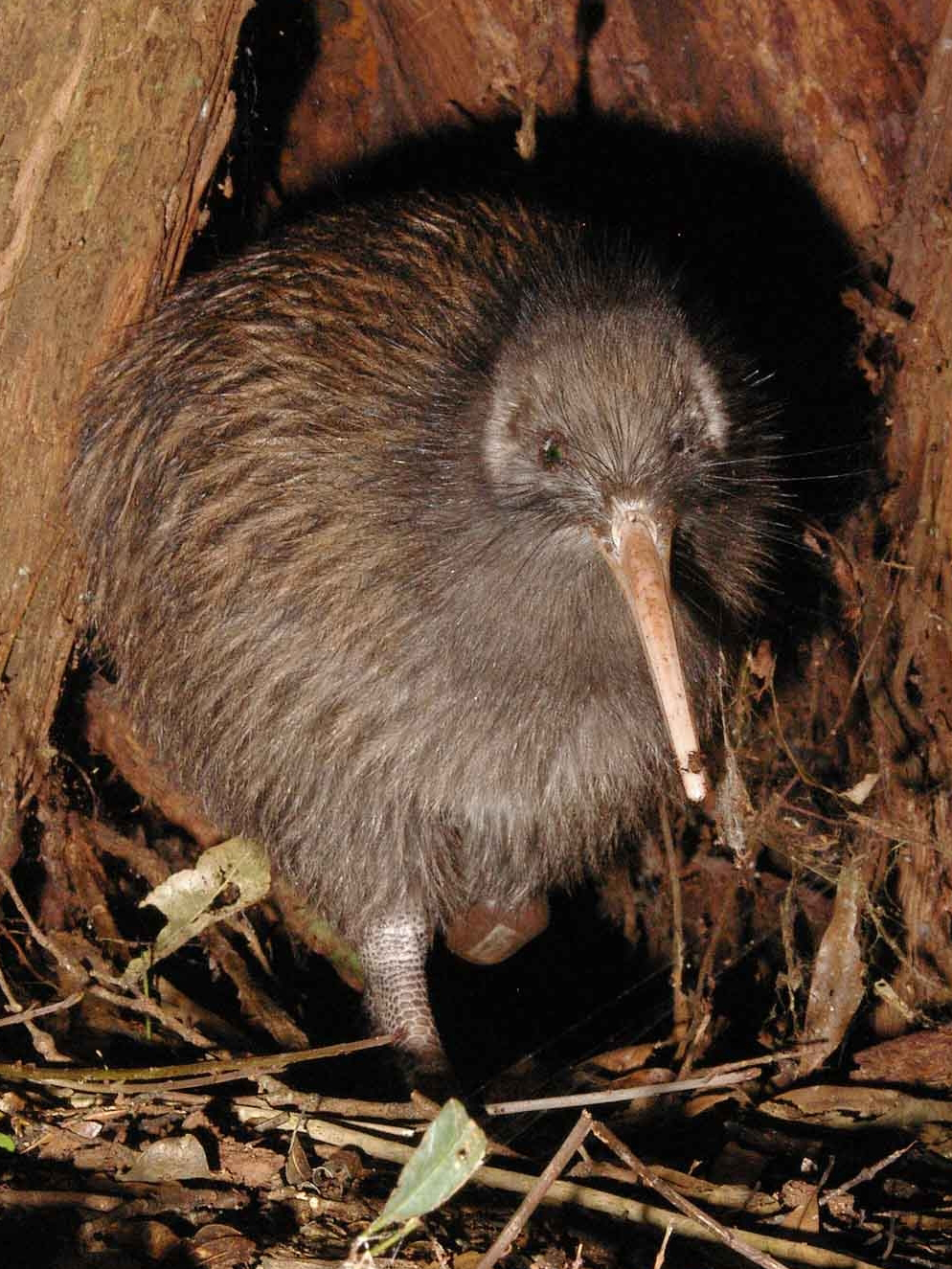 Te Tuatahi a nui, a male kiwi on Maungatautari mountain. (North Island brown kiwi, Apteryx mantelli). In early 2007 a transmitter attached to Te Tuatahi a nui, which gives staff valuable information about his health, indicated that the five year old is sitting on an egg, a first for this ecological reserve. With North Island brown kiwi the female lays the eggs while the male has responsibility for them during the 85 days of incubation.